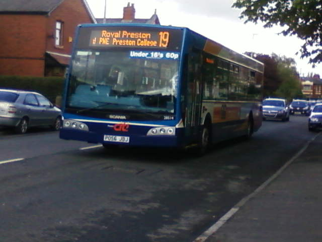 This is an Scania/East Lancs Esteem which is operated by Stagecoach in Preston, formerly Preston Bus.